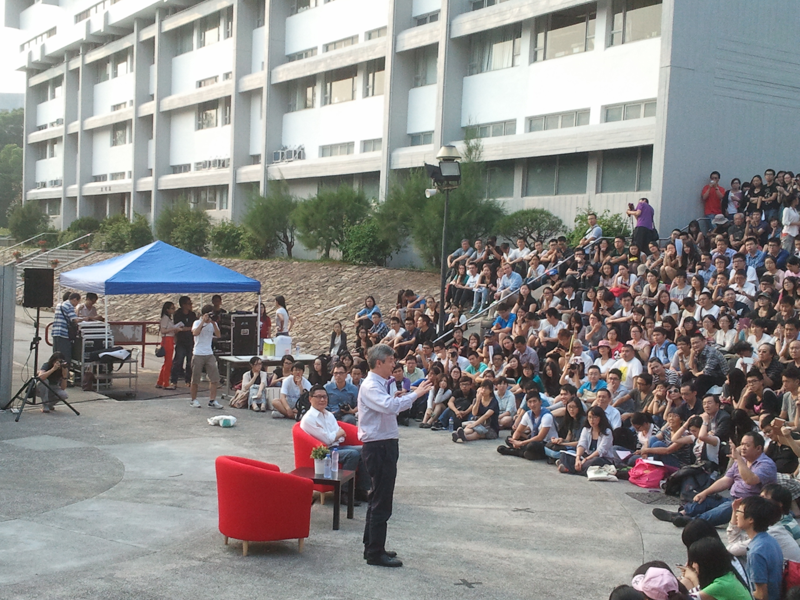 Hei Weifang in New Asia College, CUHK